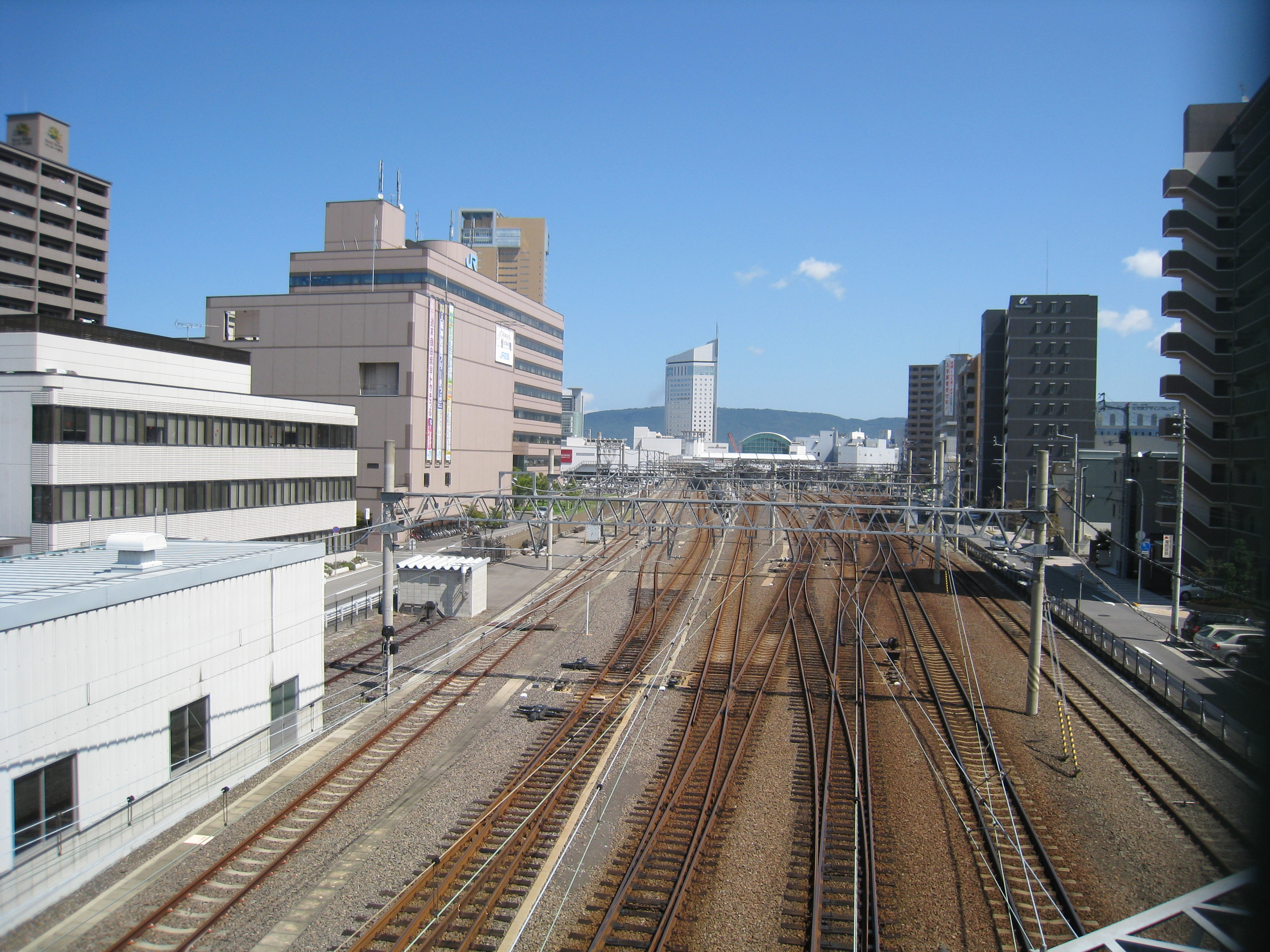 Near Takamatsu station